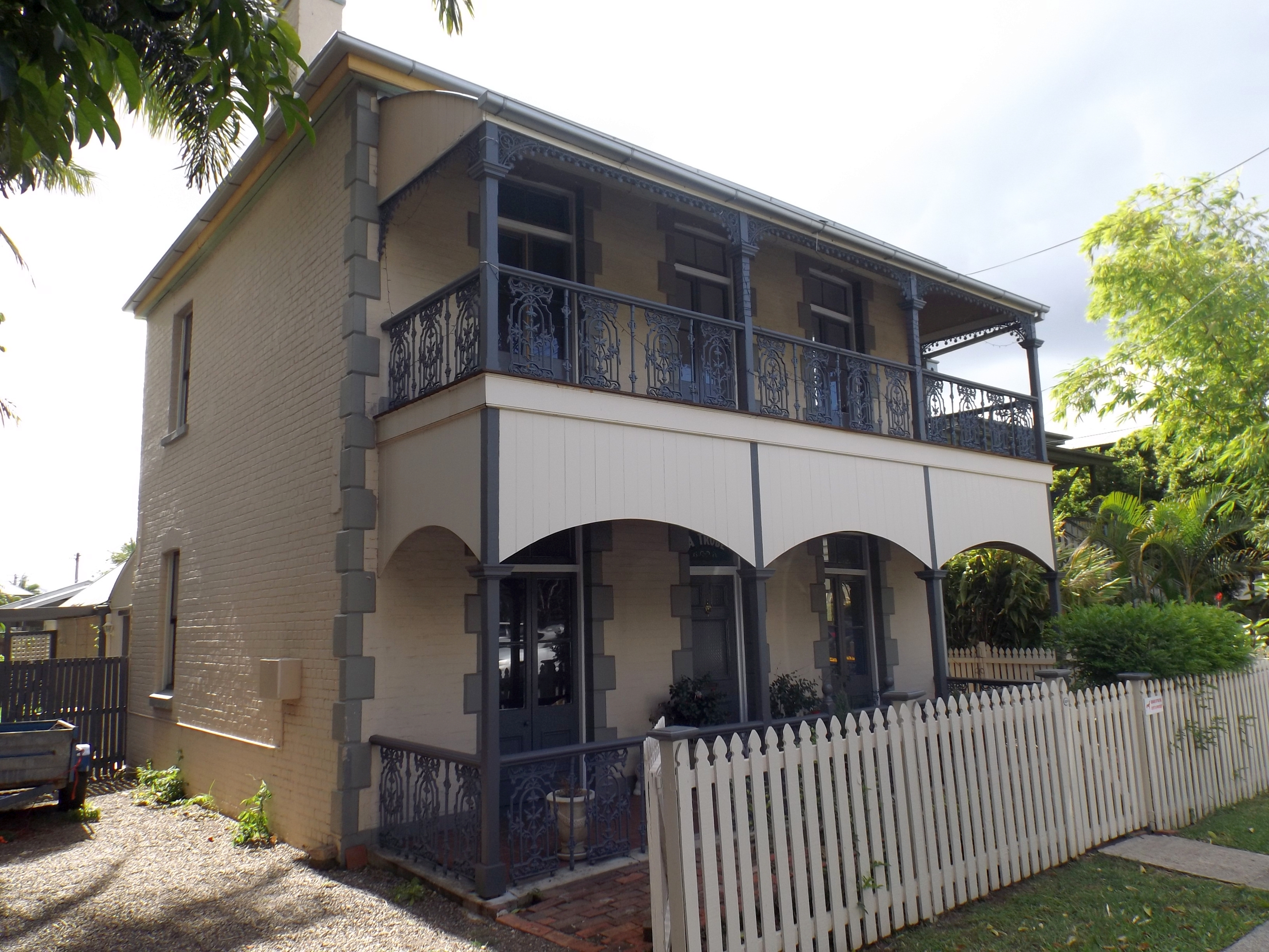 Photo of La Trobe residence at East Brisbane, Brisbane, Queensland, Australia.